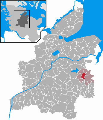 Locator maps of municipalities in Schleswig-Holstein - District Rendsburg-Eckernförde